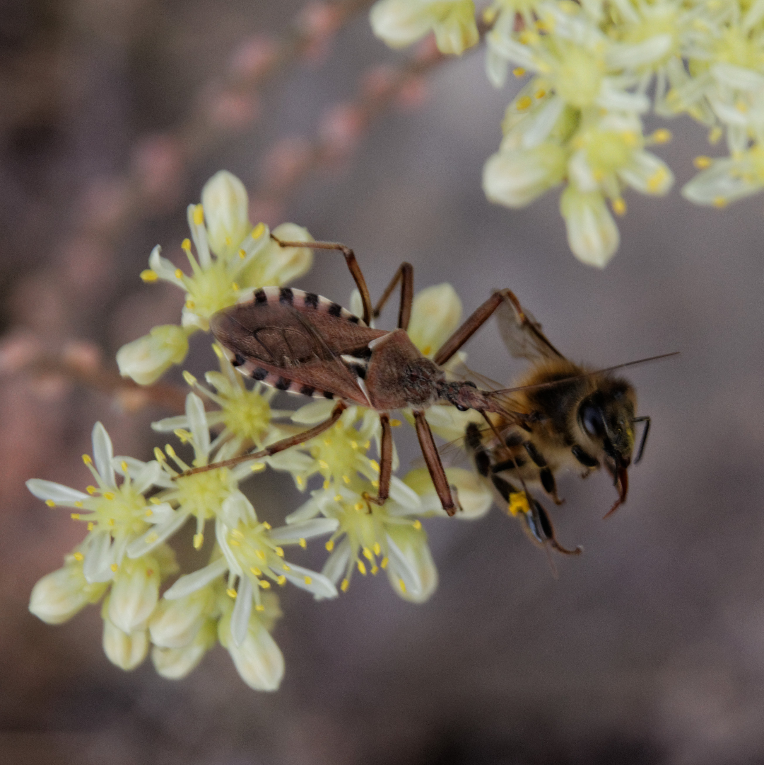 Assassin bug regaled by a bee